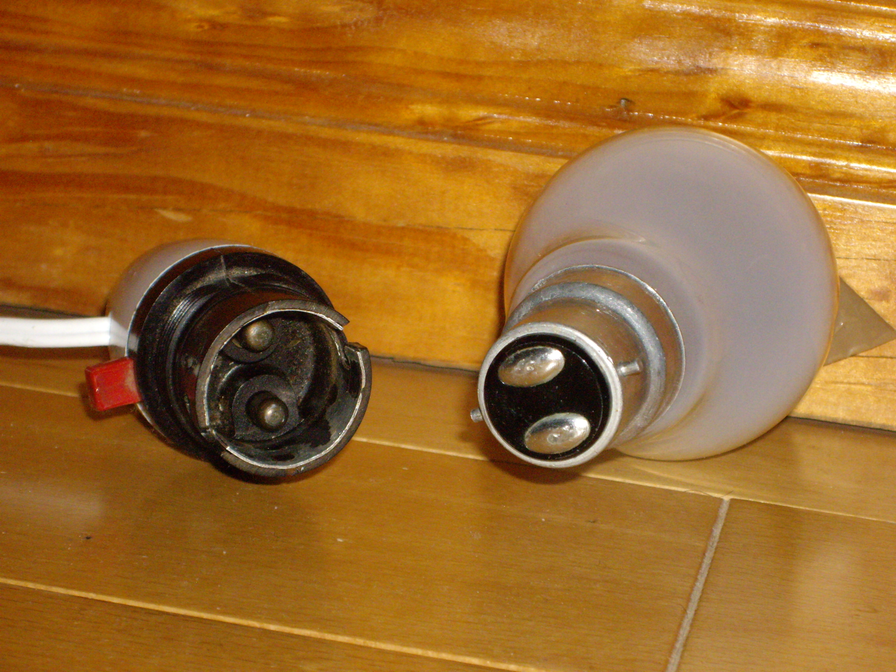 A bayonet mounted incandescent light bulb next to the corresponding socket. The socket is part of the mounting (with red switch) from an old (c.1970) table lamp.